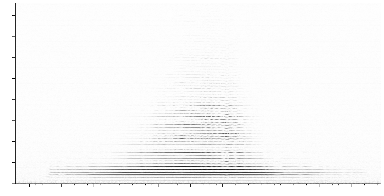 Sonogram of the same sound played on a French horn whose volume first increases and then decreases as Image:3D-Spectrogram French horn.png. The horizontal axis represents the time, the vertical one the frequency. (Created with the program Snd [2]).